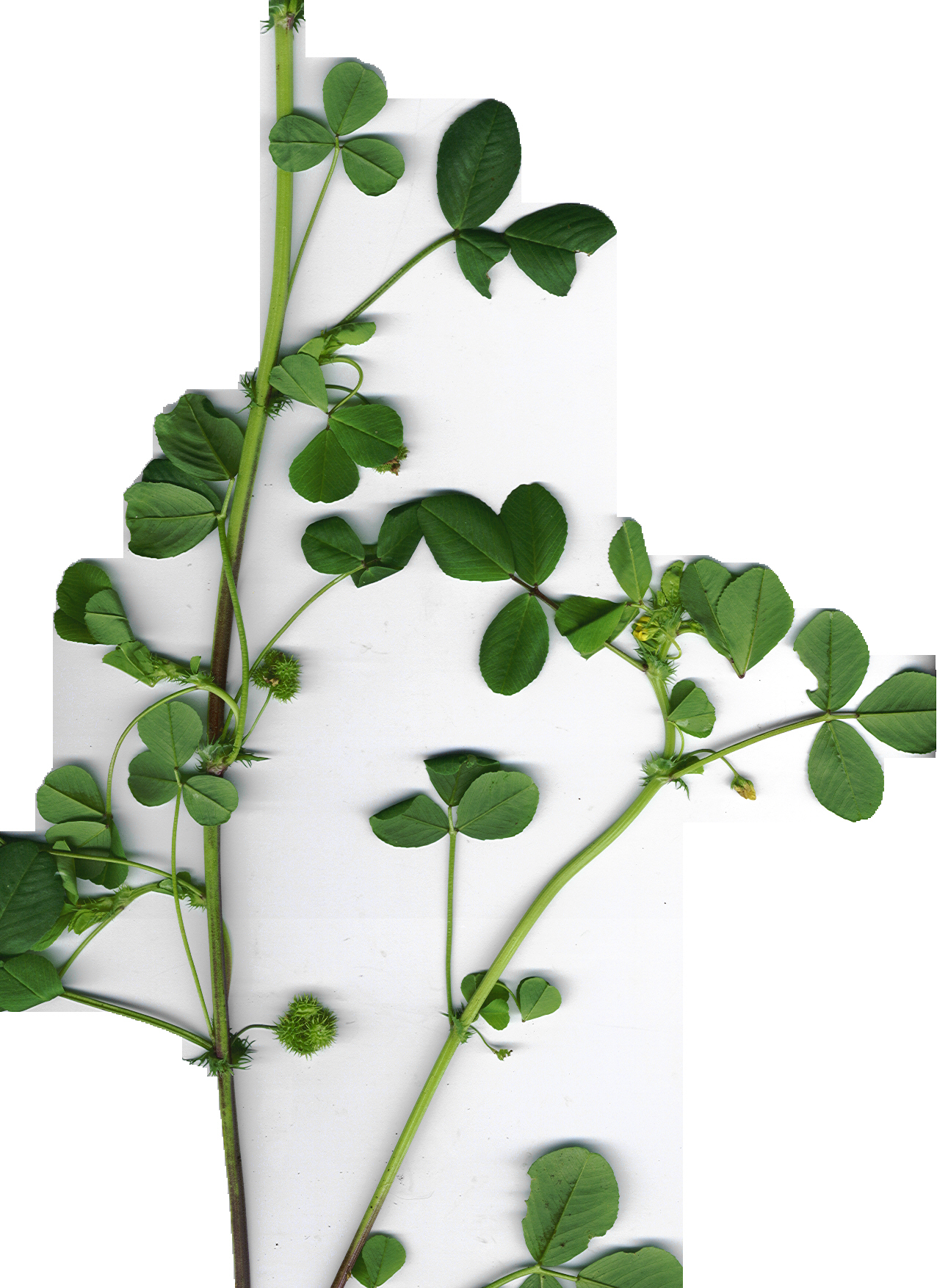 Medicago polymorpha (plant). Location: Maui, Kula